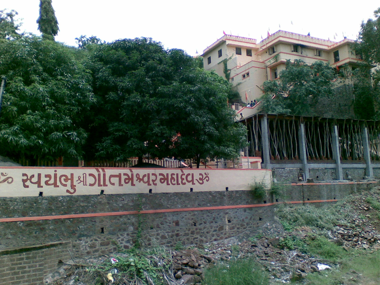 Shree Gautameshwar Mahadev Temple complex-Sihor-Gujarat